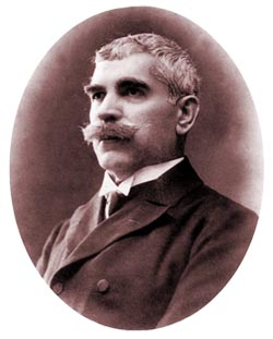 Photo of Bulgarian writer Ivan Vazov (1850-1921)